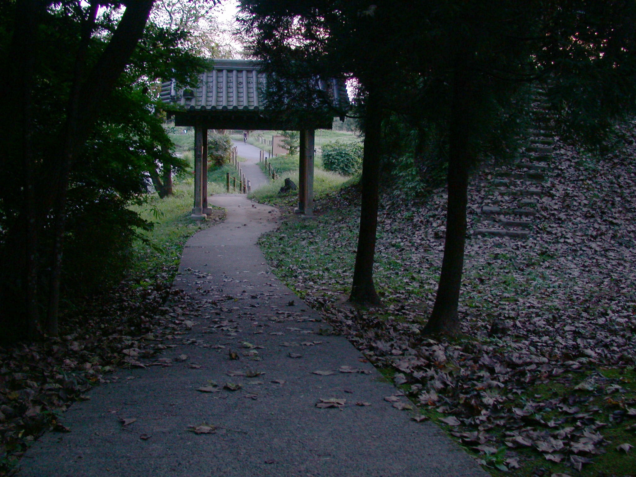 gate of Sakura Castle